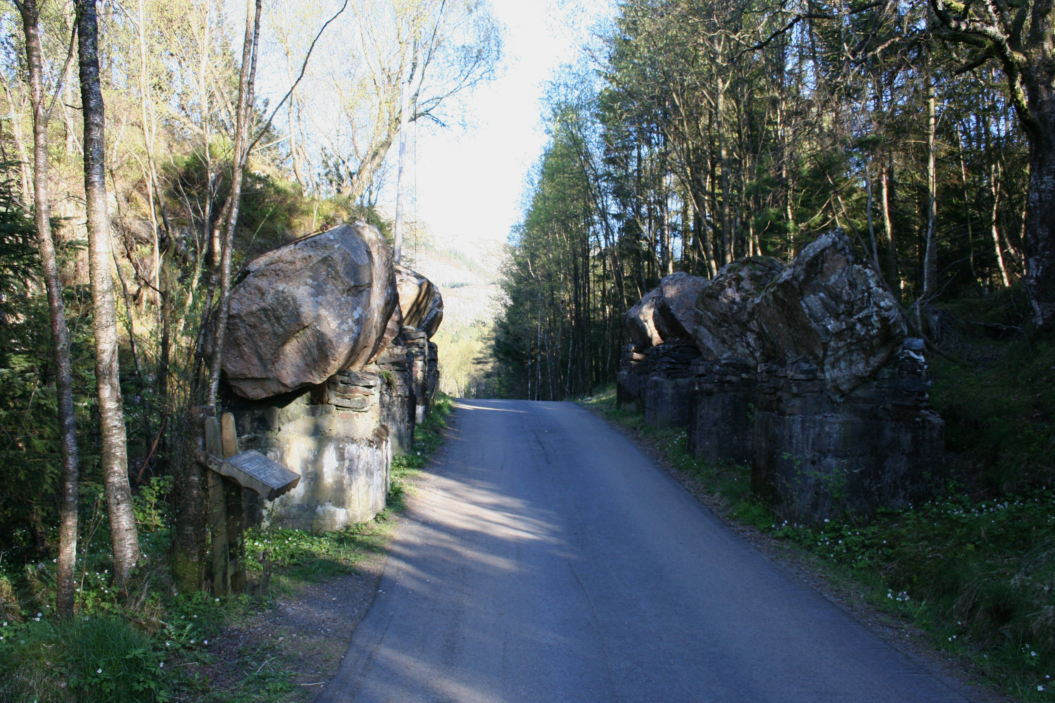 A "Panzersperre" from WWII: eight large rocks placed on top of a concrete base, as it stands on sides of the road leading up to "Batterie Fjell", at Sotra island, Hordaland - Norway. Originally, the rocks were held in place by a thick wire only, which could be cut in case should enemy troops land and try to advance towards the Fjell Fortress via the road. The eight heavy rocks would, when the wire was cut, fall down on the road and block the way for tanks and cars. On the right hand side, there is a steep hill impossible to climb for tracked or wheeled vehicles, to the left there is a wetland, bog, also impossible to cross. This particular roadblock is a rare construction: a german standard roadblock was named "Walzkörpersperre", and was made entirely of concrete. See also a closeup: Image:Panzersperre batterie fjell closeup.JPG